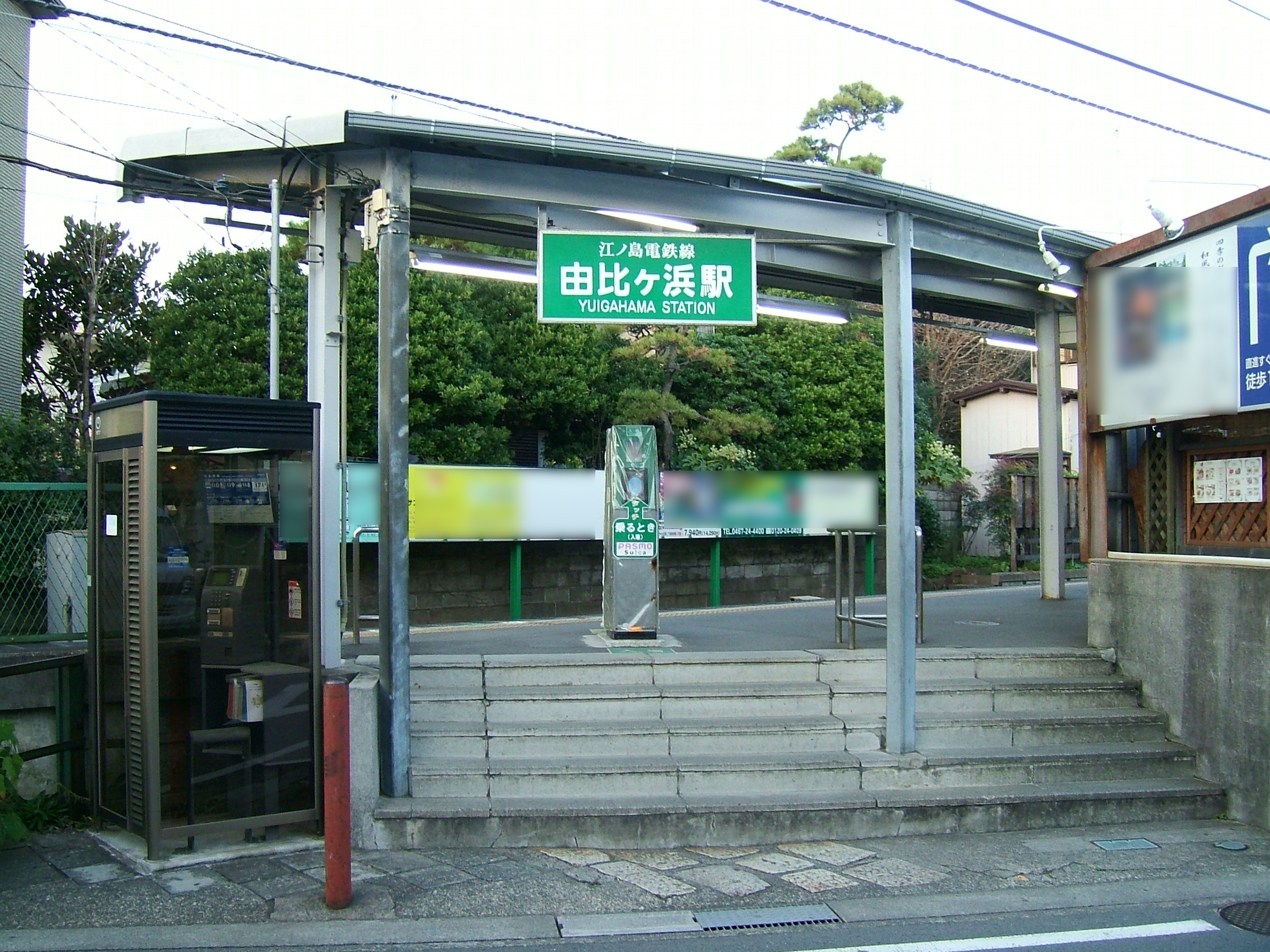 The entrance to Yuigahama Station on the Enoden Line in Kamakura city, Kanagawa prefecture, Japan